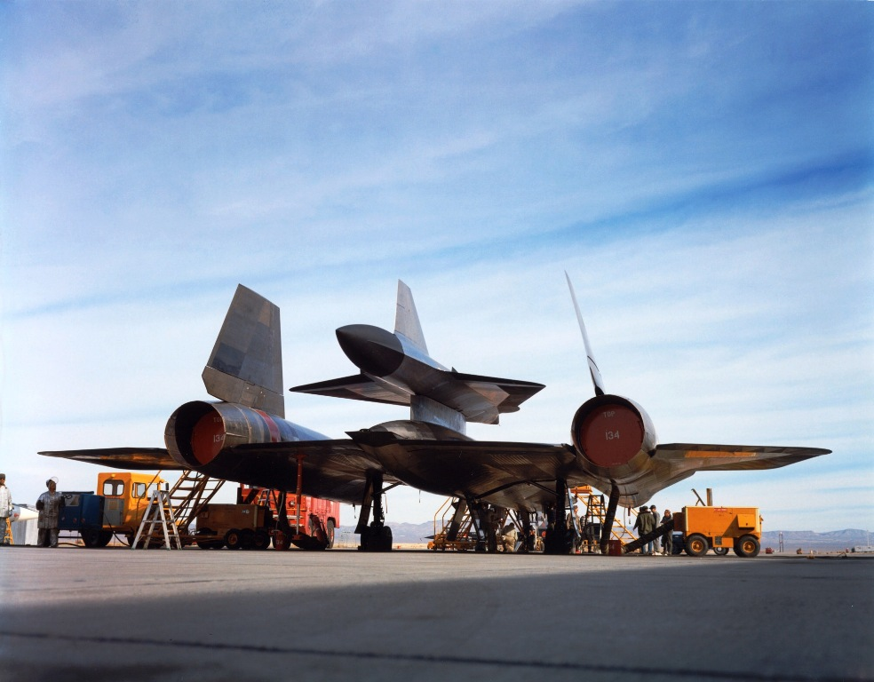 Rear view of an M-21/D-21 combo sitting on the runway. This is from an early flight where aerodynamic shrouds were placed over the intake and exhaust of the drone. At the time this photo was taken this was still a very secret program, ruling out the possibility of a civilian taking the picture.